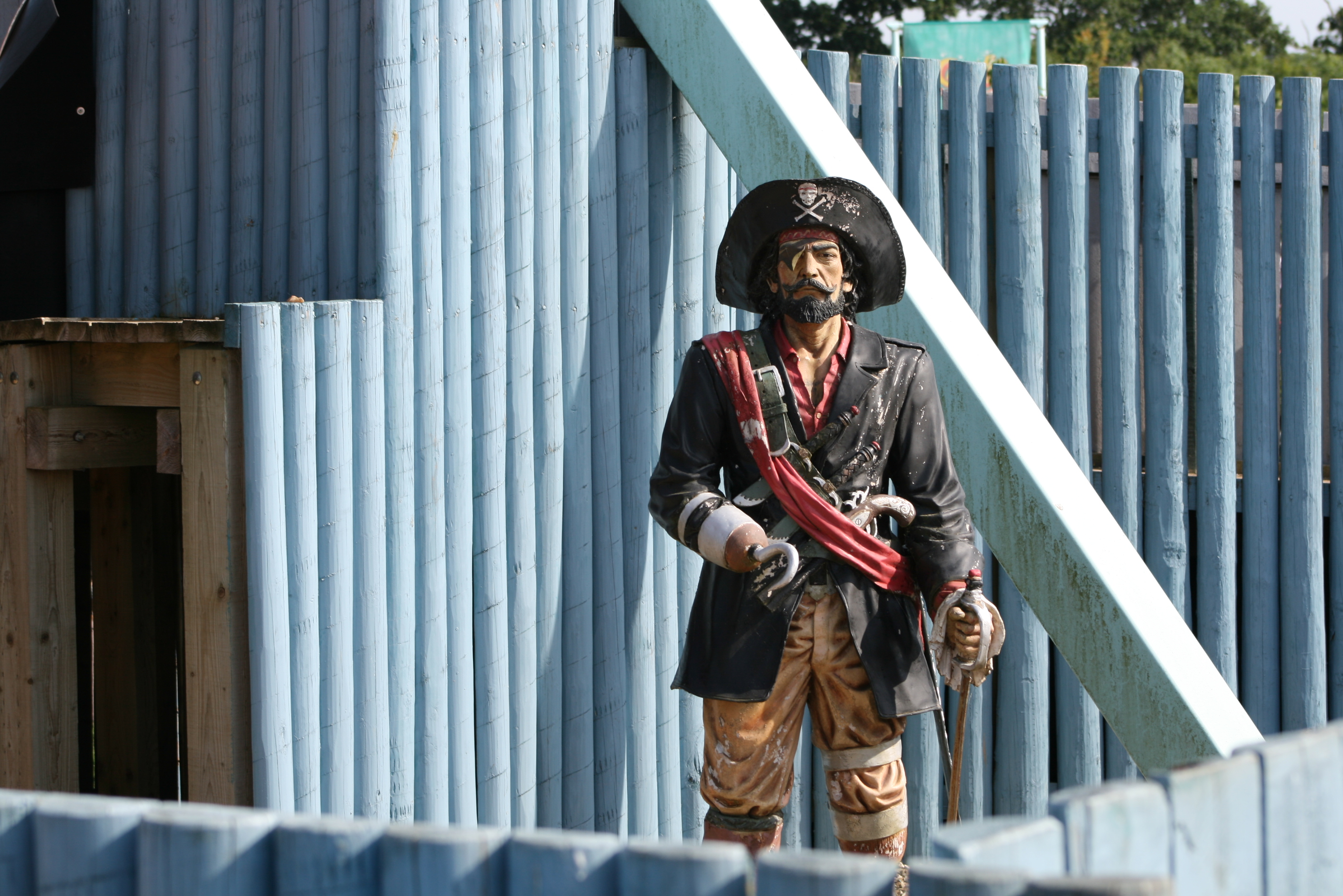 Crealy park pirate